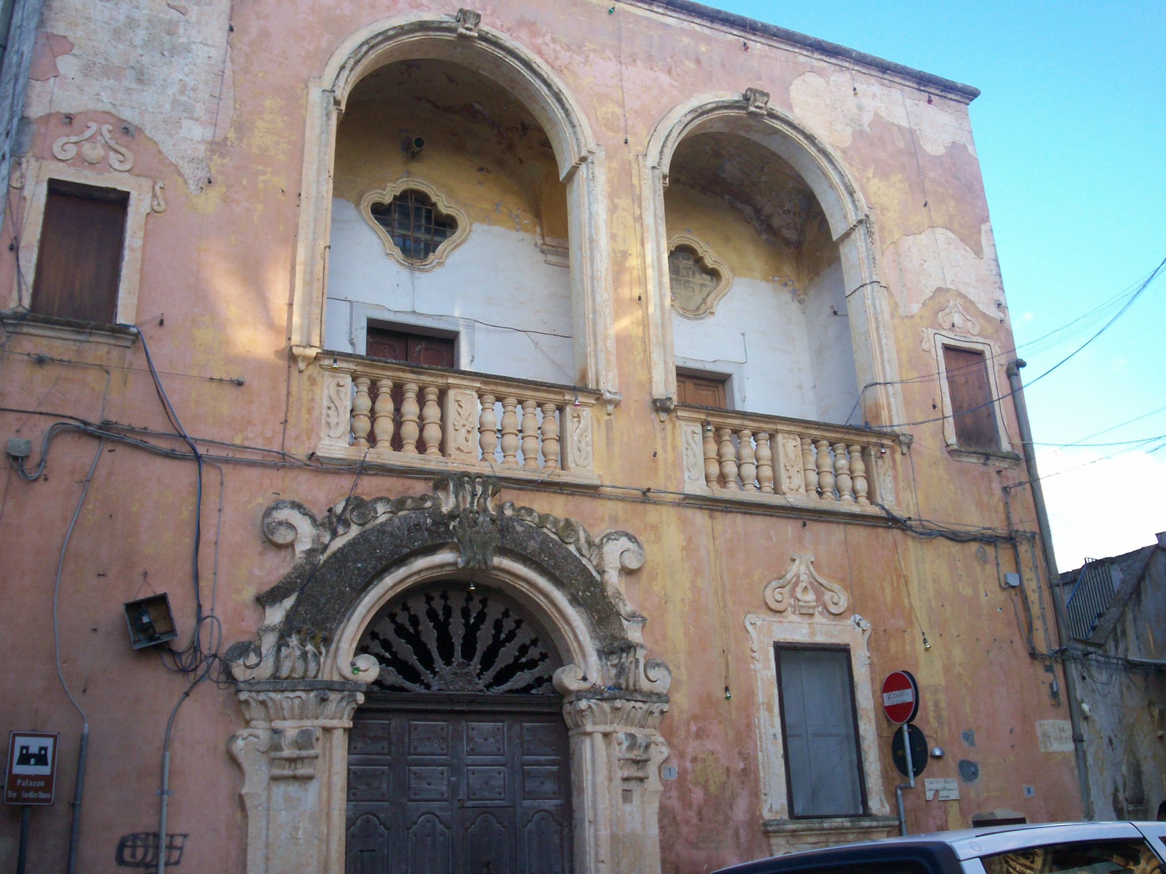 De Iudicibus Palace in Casarano, Province of Lecce - Apulia (Italy)